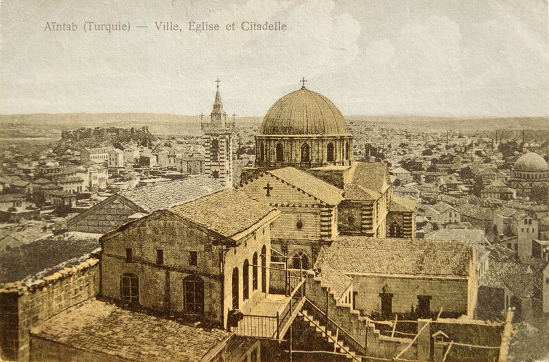 St Mary's Church Cathedral or Holy Mother of God Church (Armenian: Սուրբ Աստուածածին Եկեղեցի, Turkish: Surp Asdvazdadzin Kilisesi), located in the Tepebaşı neighnorhood of Gaziantep in Turkey, is a former Armenian Apostolic Church, which was converted into a mosque.